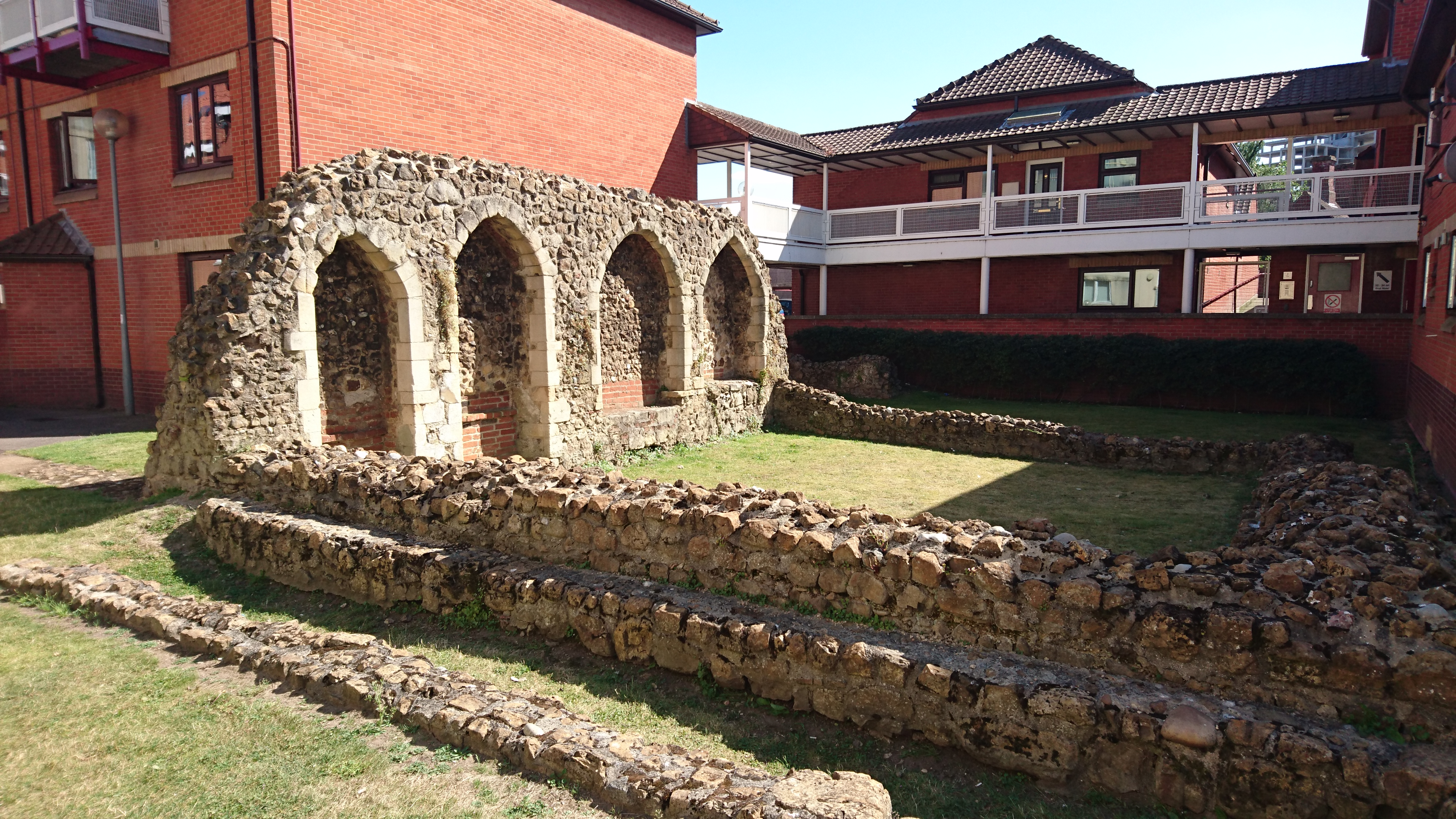 Photo of Ipswich Blackfriars ruins, featured the least ruined bit, on a sunny day